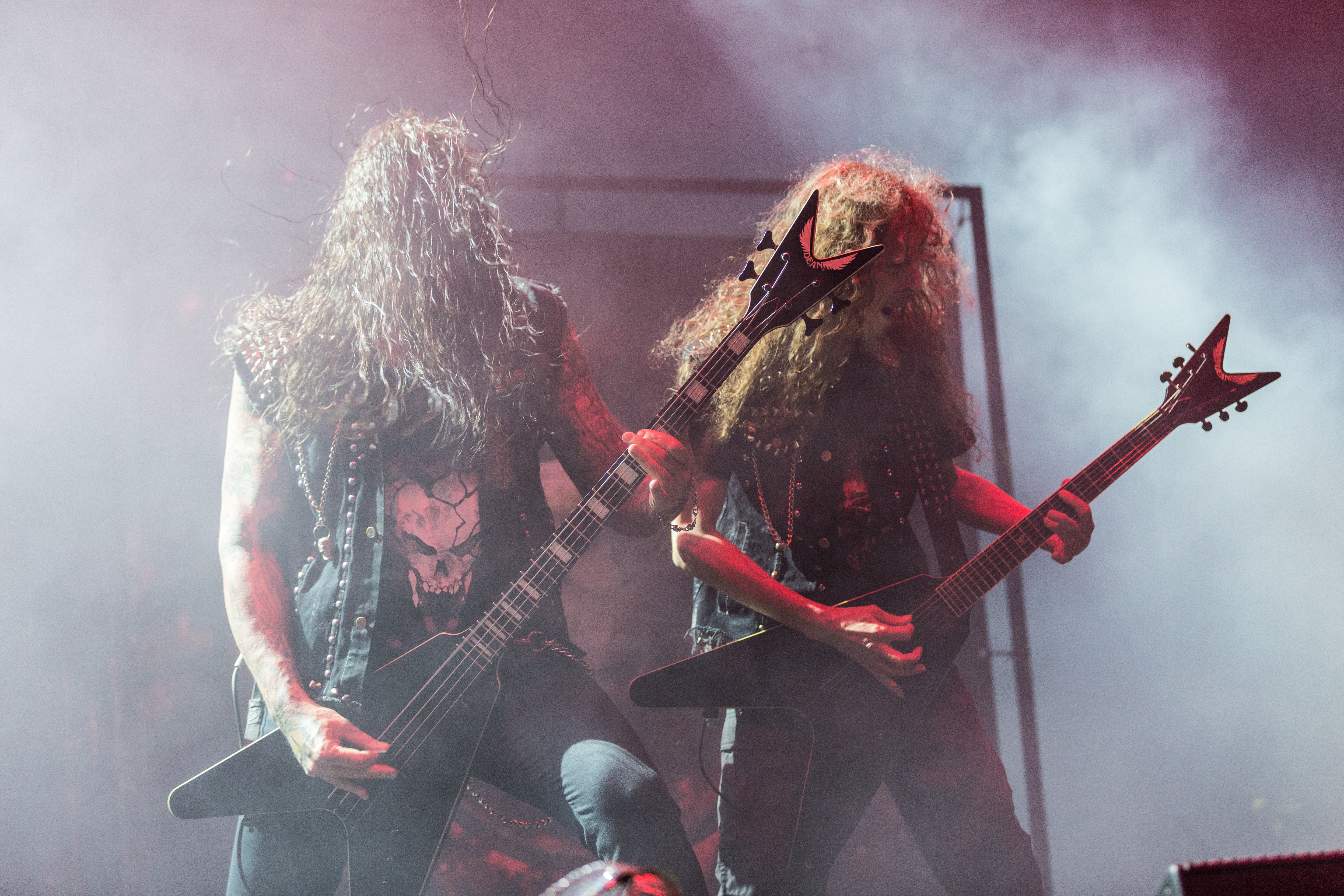 The German thrash metal band Destruction at the Metal Frenzy 2017 in Gardelegen/Germany.